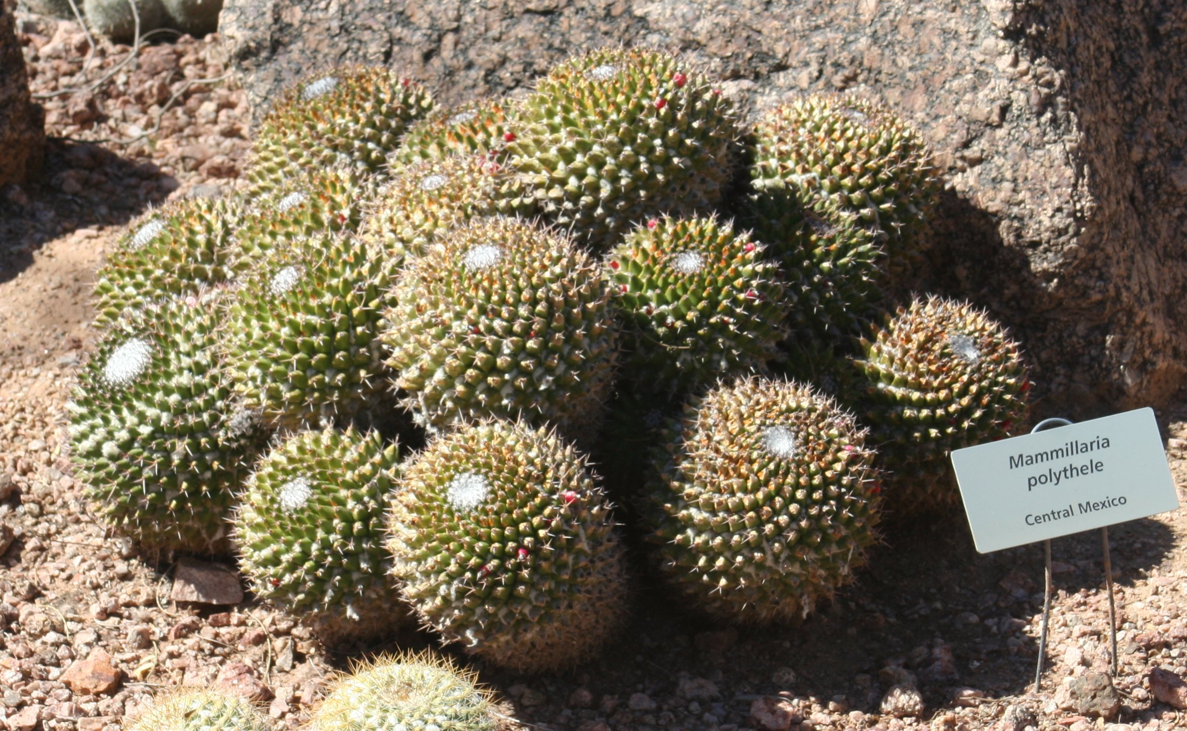 Mammillaria polythele; native to Central Mexico. Photographed at the Desert Botanical Garden, Phoenix, AZ.